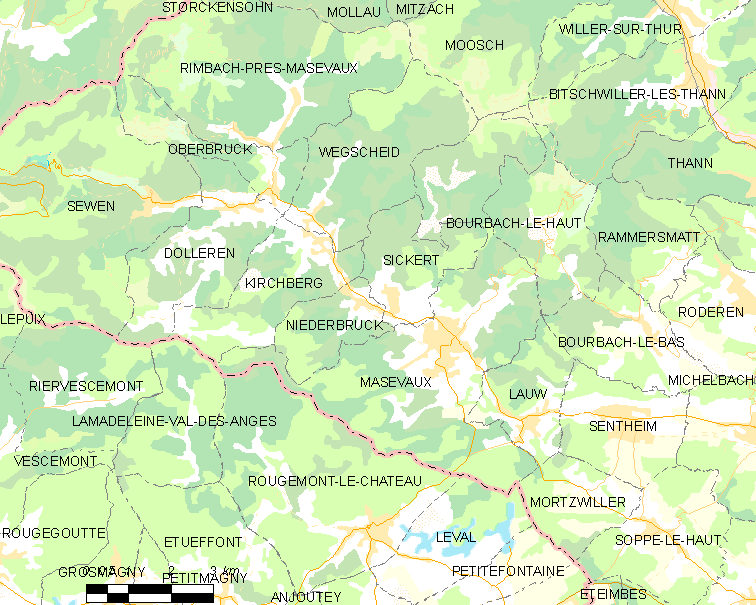 Map of French municipality